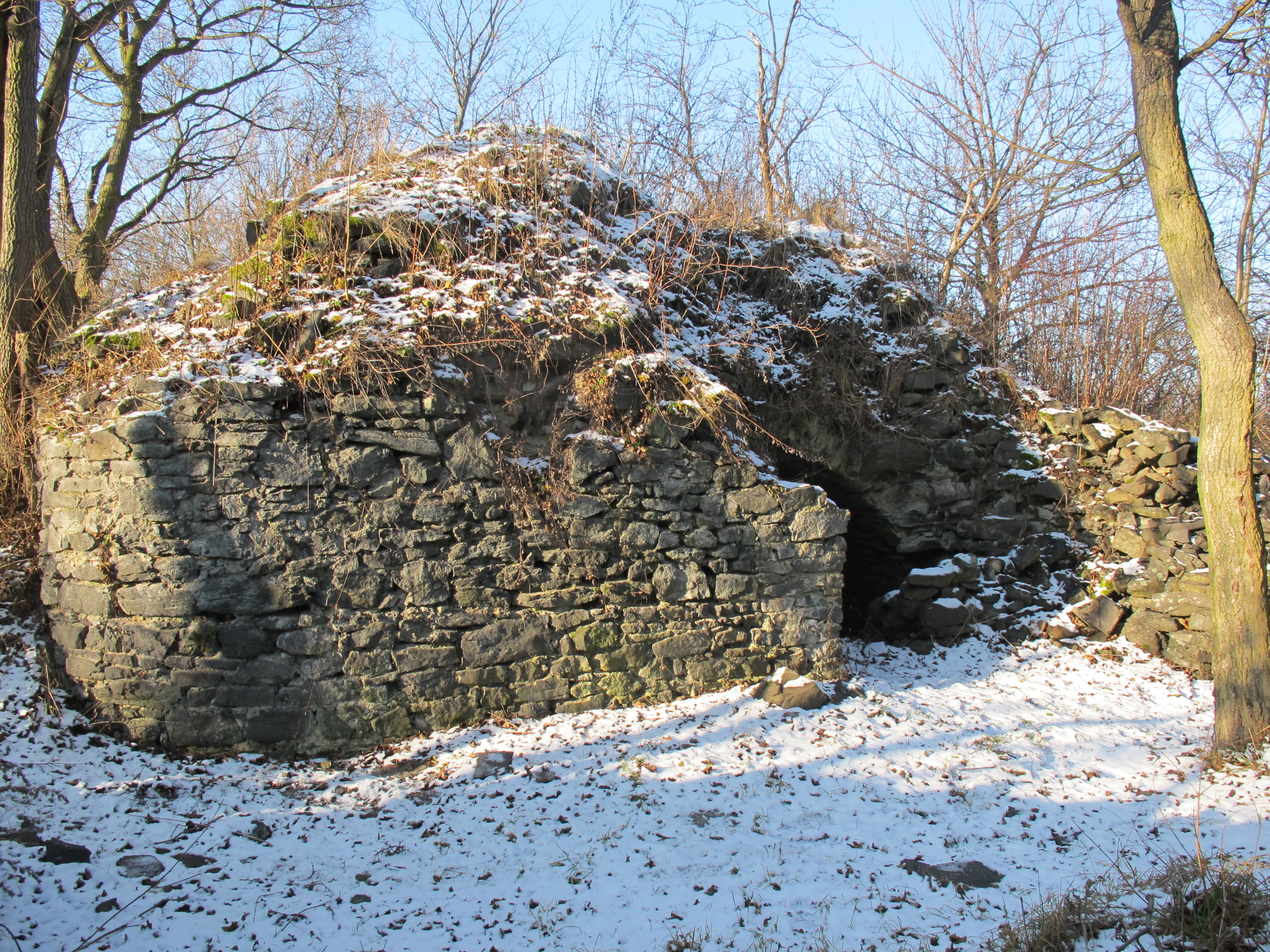 Křečov, Castle in the Czech Republic - the Rest of the Tower